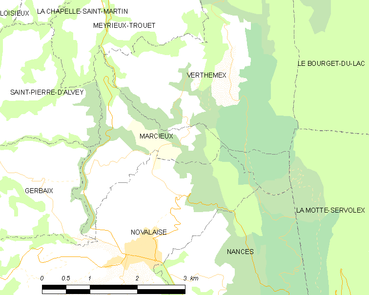 Map of French municipality